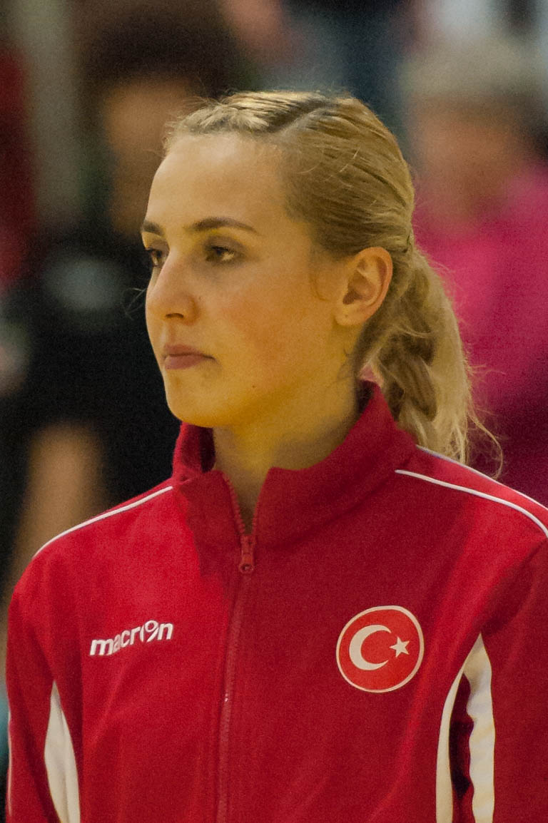 2015 World Women's Handball Championship Qualification 2014-12-06: Merve Adiyaman